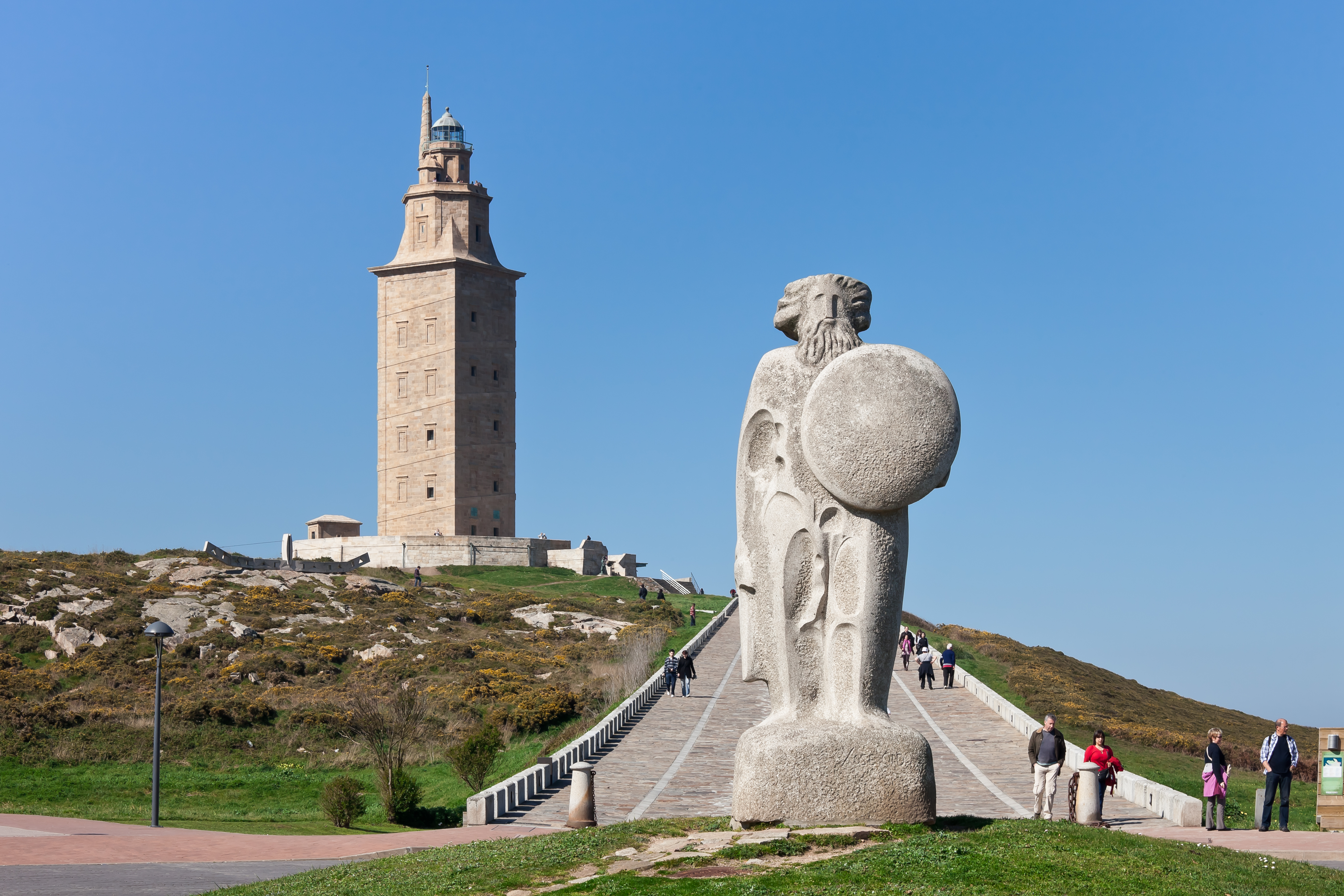 Breogan and the Tower of Hercules, A Coruña, Galicia, Spain. RI-51-0000540